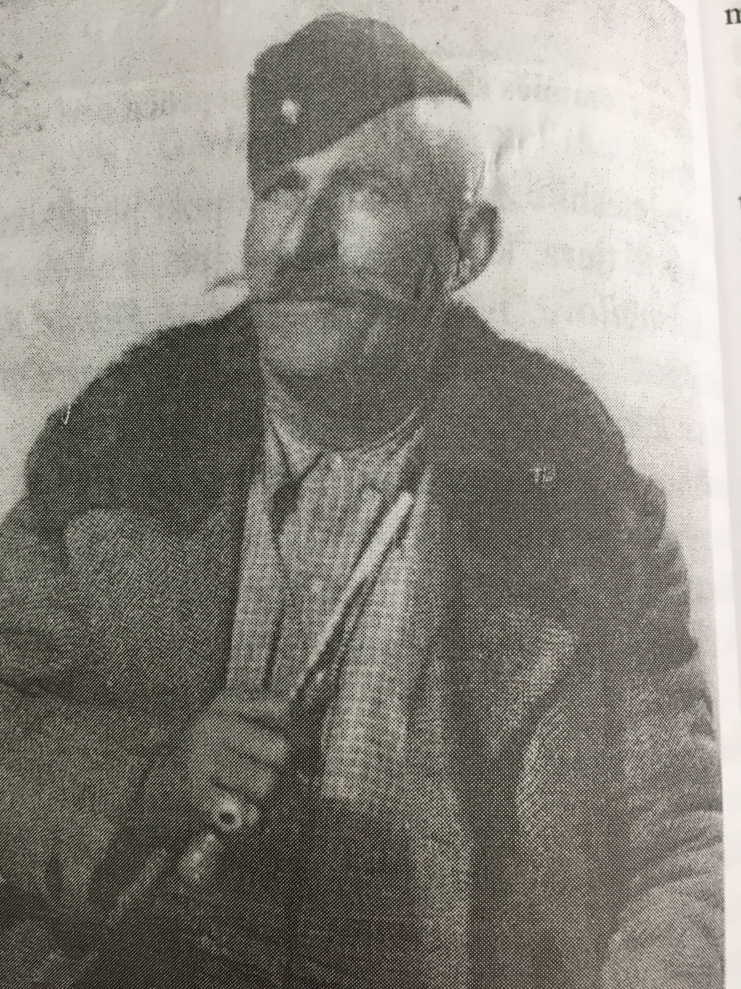 personaliteti avdyl dura